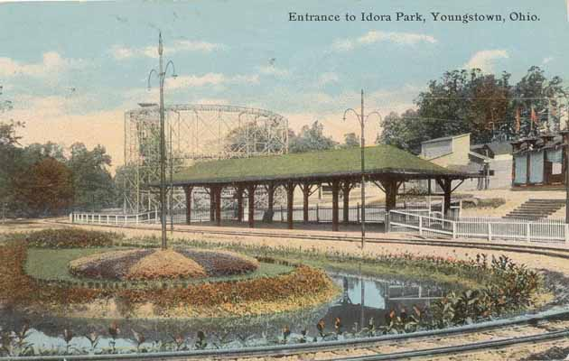 Idora Park entrance, Youngstown, Ohio, first published in the United States before 1923. category:Amusement park images